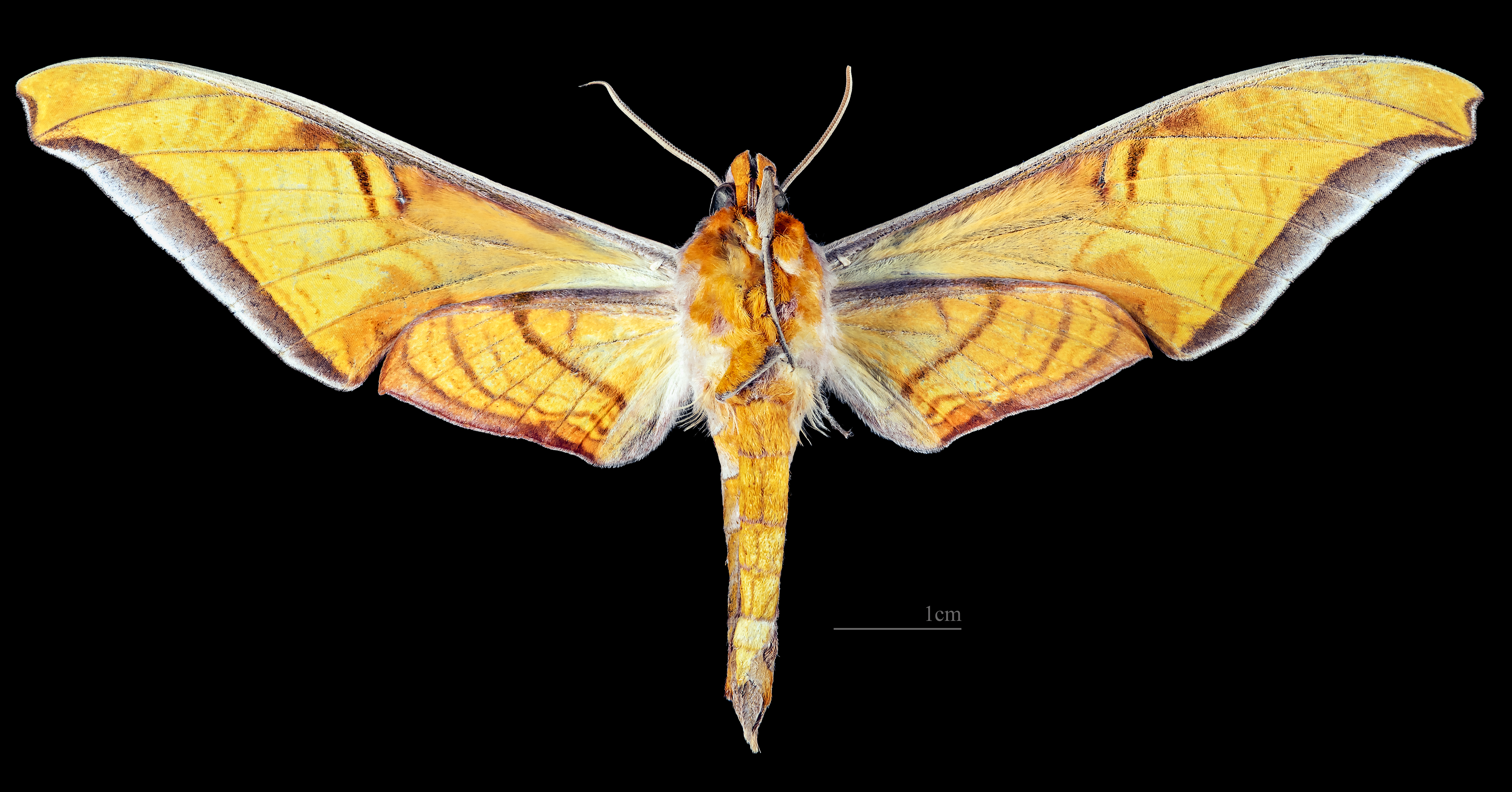 Protambulyx ockendeni - △ Ventral side Collection of the Mathematician Laurent Schwartz